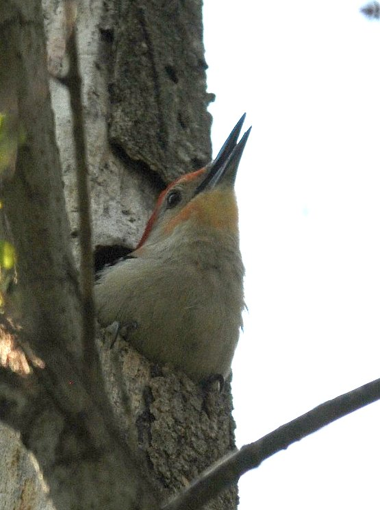 Red bellied woodpecker peeking out of its nest. In Rockville, Maryland, USA